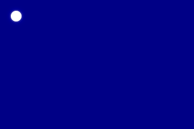 These are my own designs using MS Paint 2015 based upon illustrations and descriptions in Napisaola Alexandre Le Gras: Album des pavillons, guidons, flammes de toutes les puissances maritimes book published in 1864 on page 4. It is the command flag Vice Admiral of the Blue squadron flown at the top of the masthead in use from 1702 to 1864. In use in the Kingdom of Great Britain and United Kingdom.